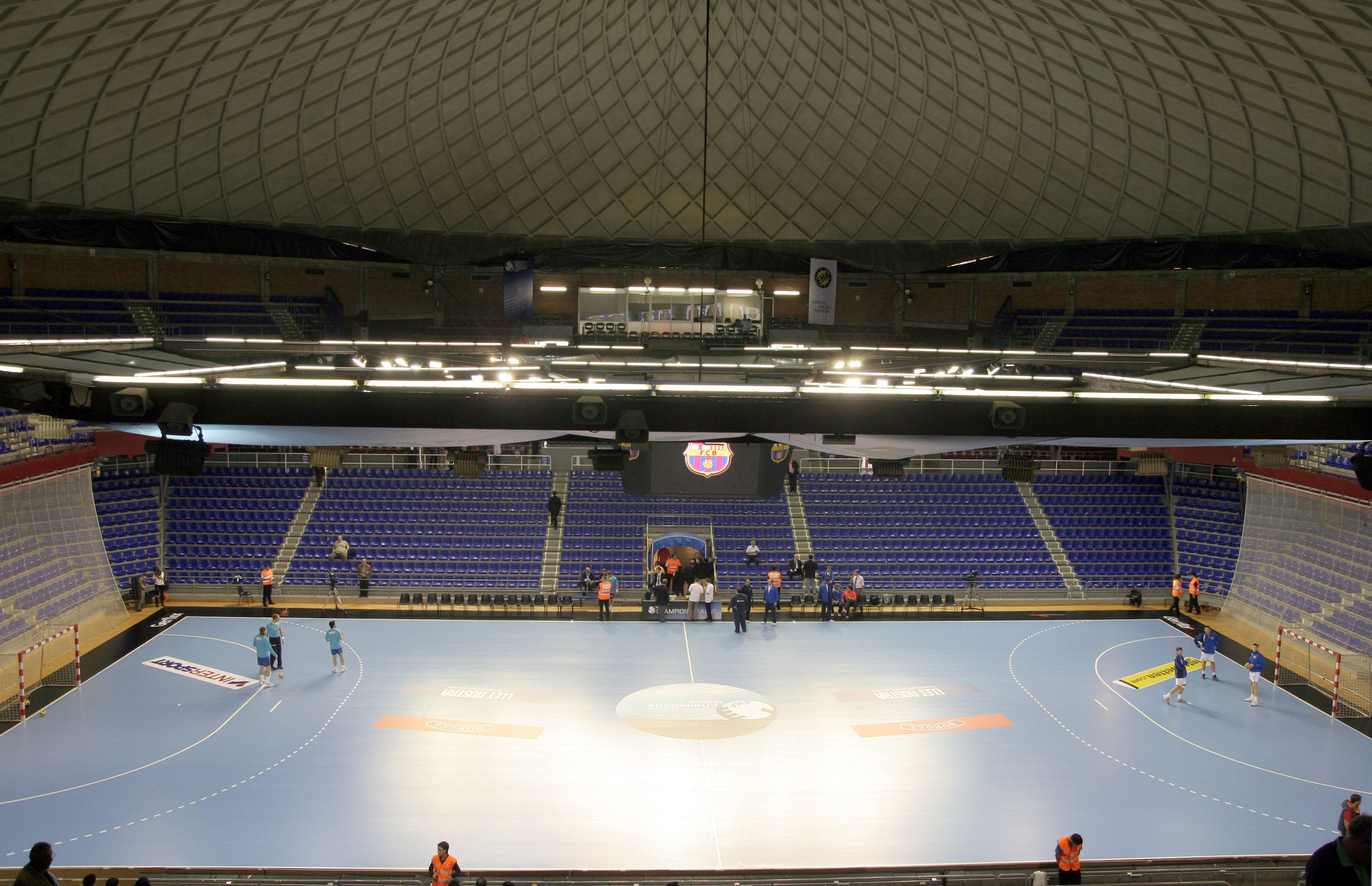 The sports arena Palau Blaugrana from FC Barcelona on October 12th, 2008 in Barcelona prior the Champions League game FC Barcelona Borges - H.C. Metalurg Skopje